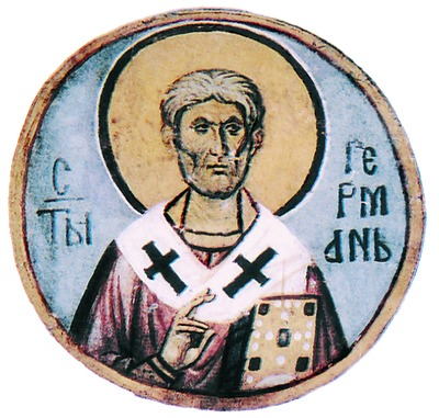 Patriarch Germanus I of Constantinople